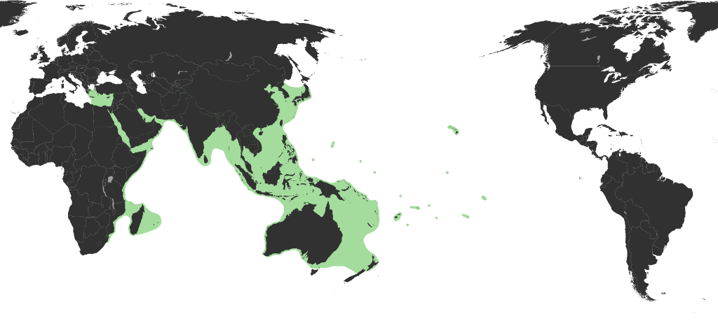 Estimated native habitat range of the bigfin reef squid (Sepioteuthis lessoniana)